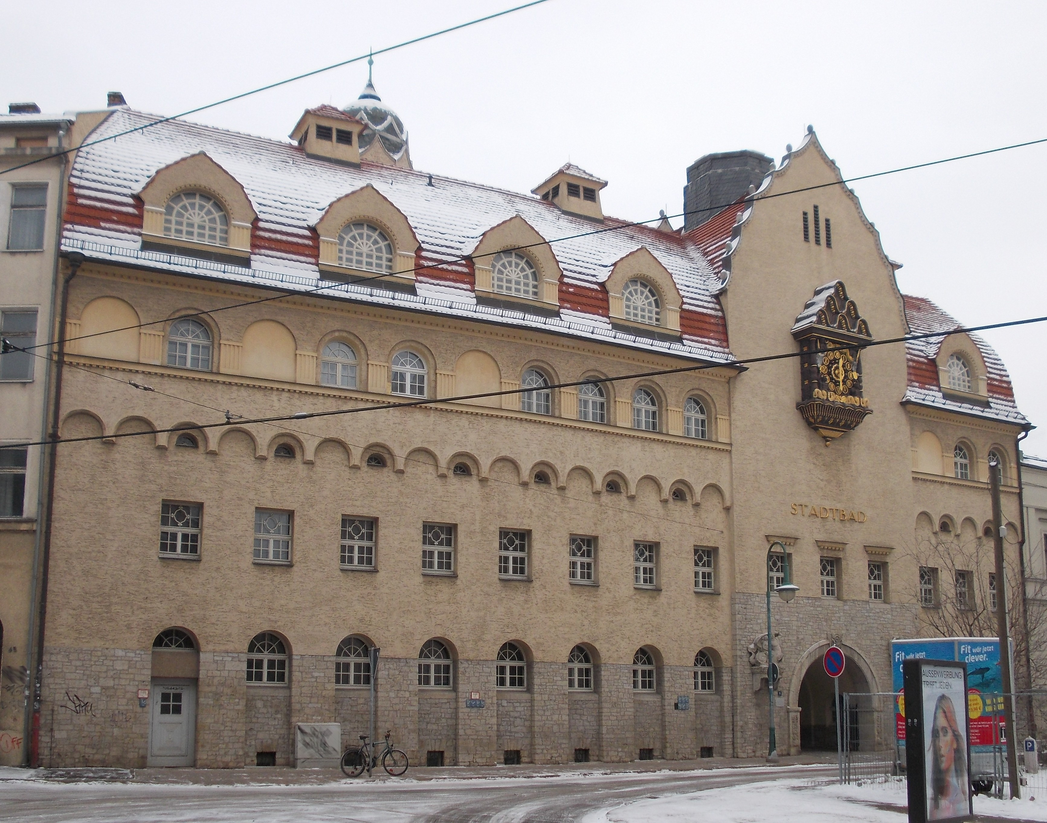 Municipal swimming-baths in Halle (Saale), Saxony-Anhalt